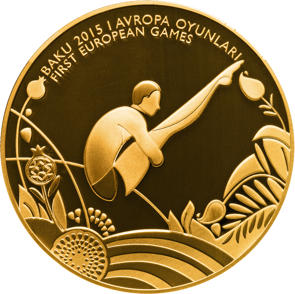 Commemorative coin of Azerbaijan